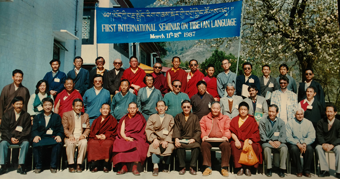 Photo of the First InternationalTibetan Language Seminar held in 1987 in Dharmasala, India